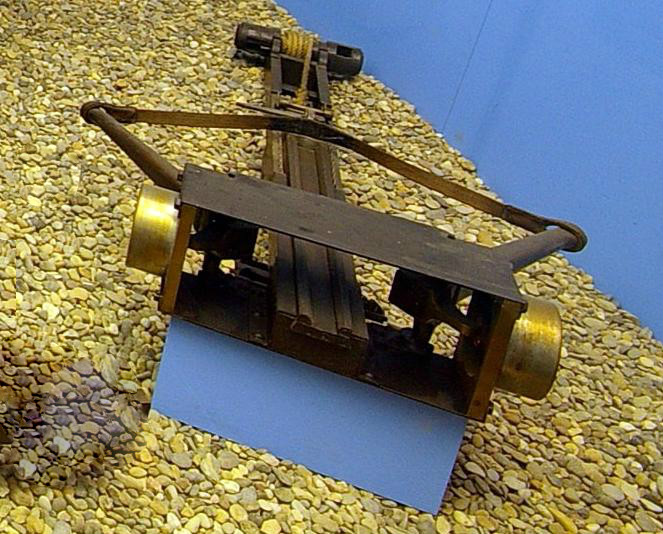 Edited version of Commons-file Ancient Mechanical Artillery. Pic 01.jpg